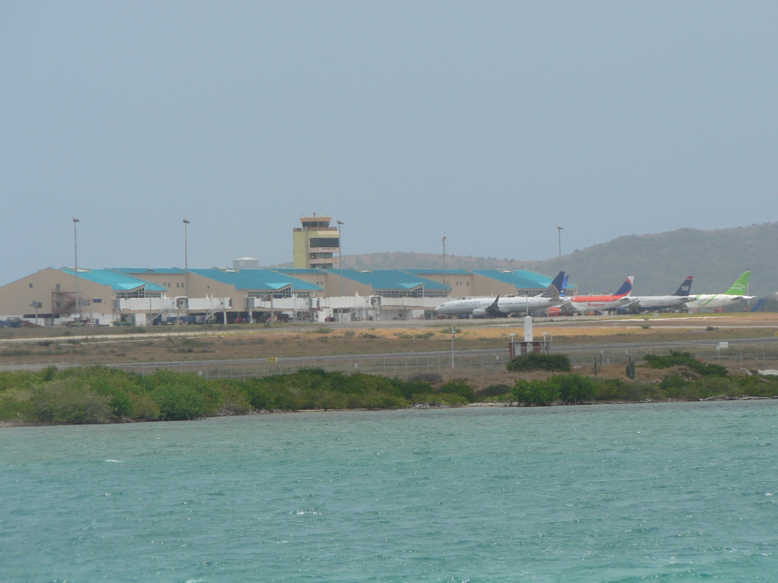 Queen Beatrix Airport on Aruba